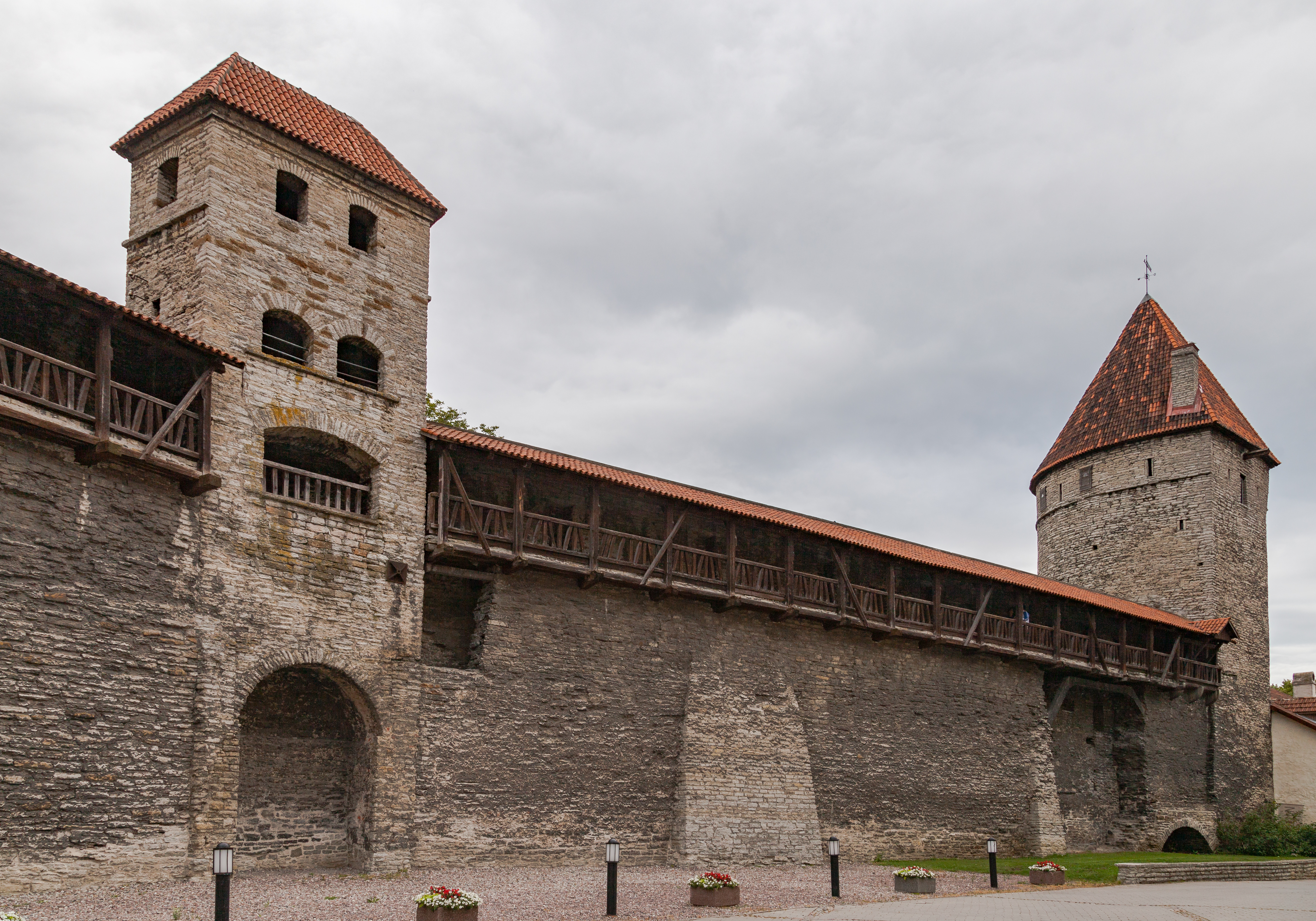 Walls of the old city of Tallinn, Estonia